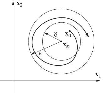 Illustration of Stability